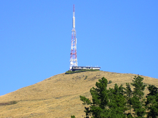 The Christchurch Sugarloaf Communications Tower located on the Port Hills. New Zealand